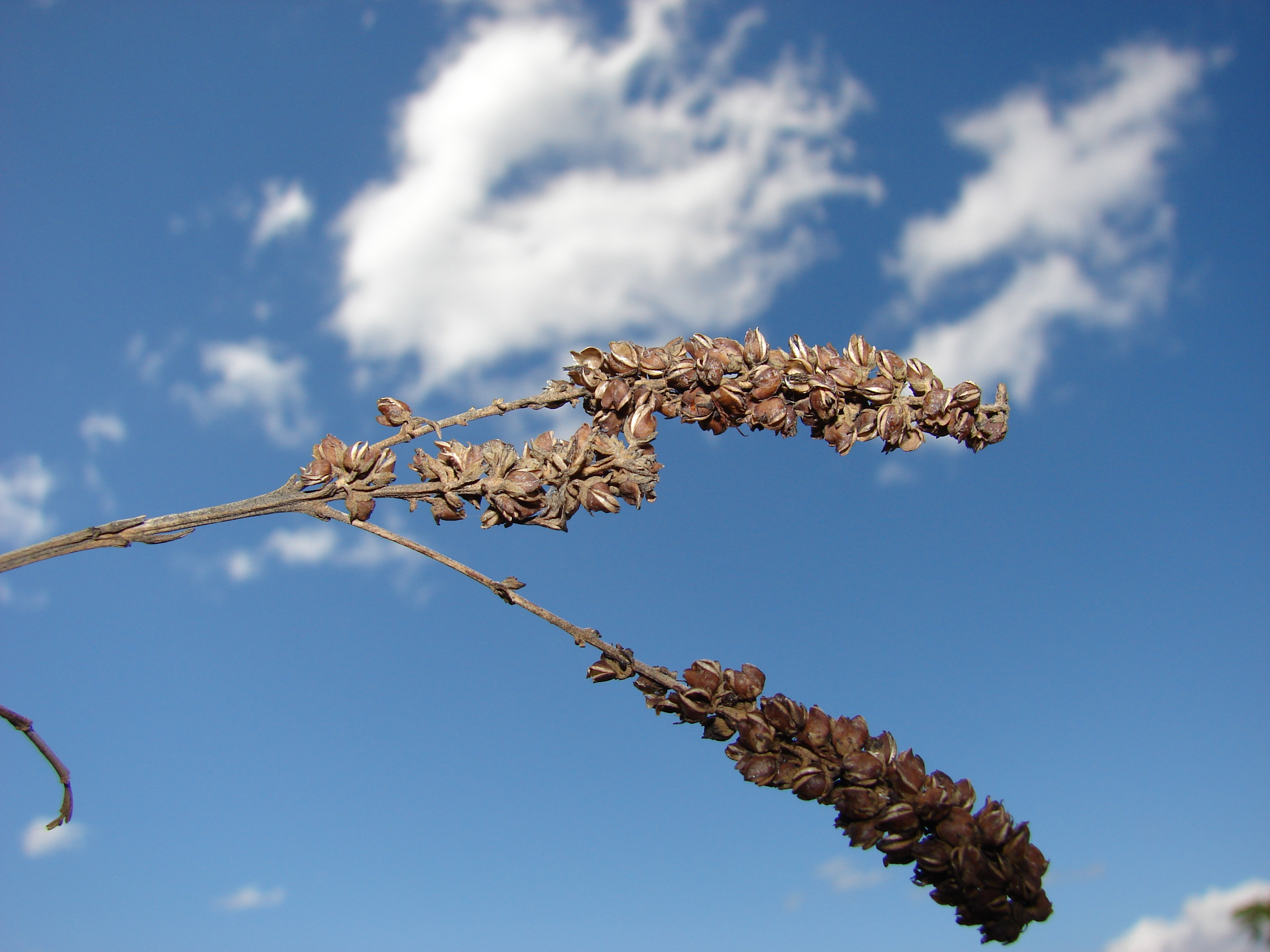 Buddleja asiatica (leaves and fruit). Location: Maui, Lahaina